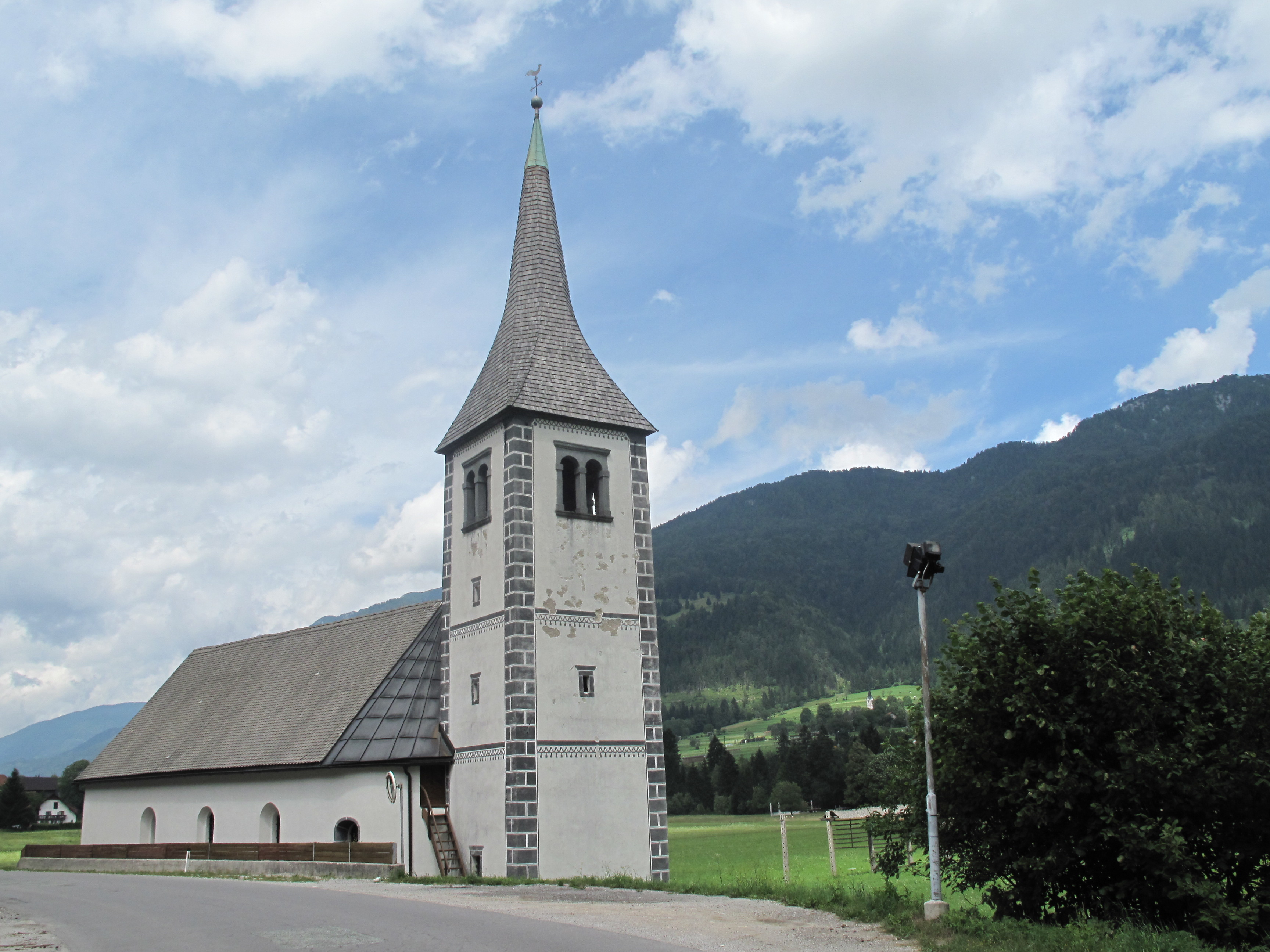 Mojstrana, church